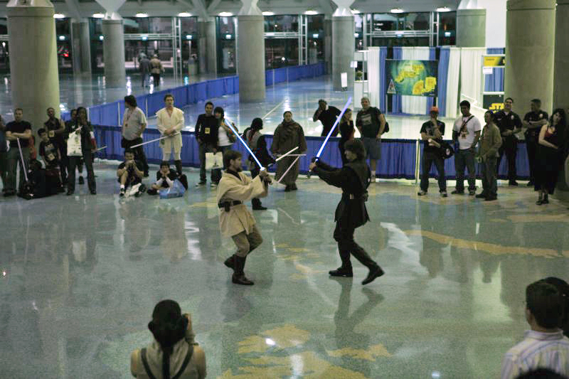 Reenacting the final duel of Episode III. We're assuming it stopped short of actual amputations and immolation. Photo by Jenny Elwick. Read more at the Official Celebration IV blog.